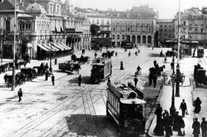 The old tramway, the Tramway de Nice et du Littoral of the French Riviera in Nice.